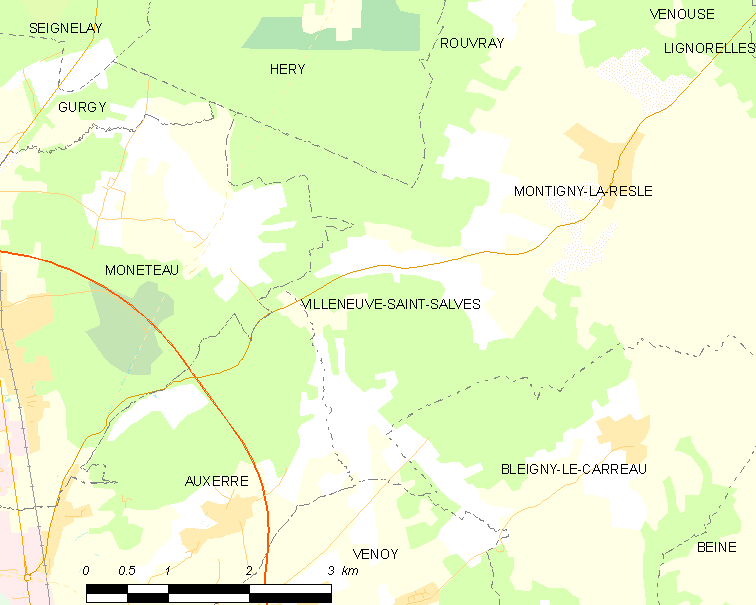 Map of French municipality Villeneuve-Saint-Salves